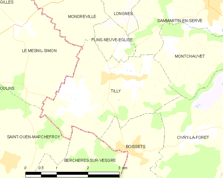 Map of French municipality Tilly